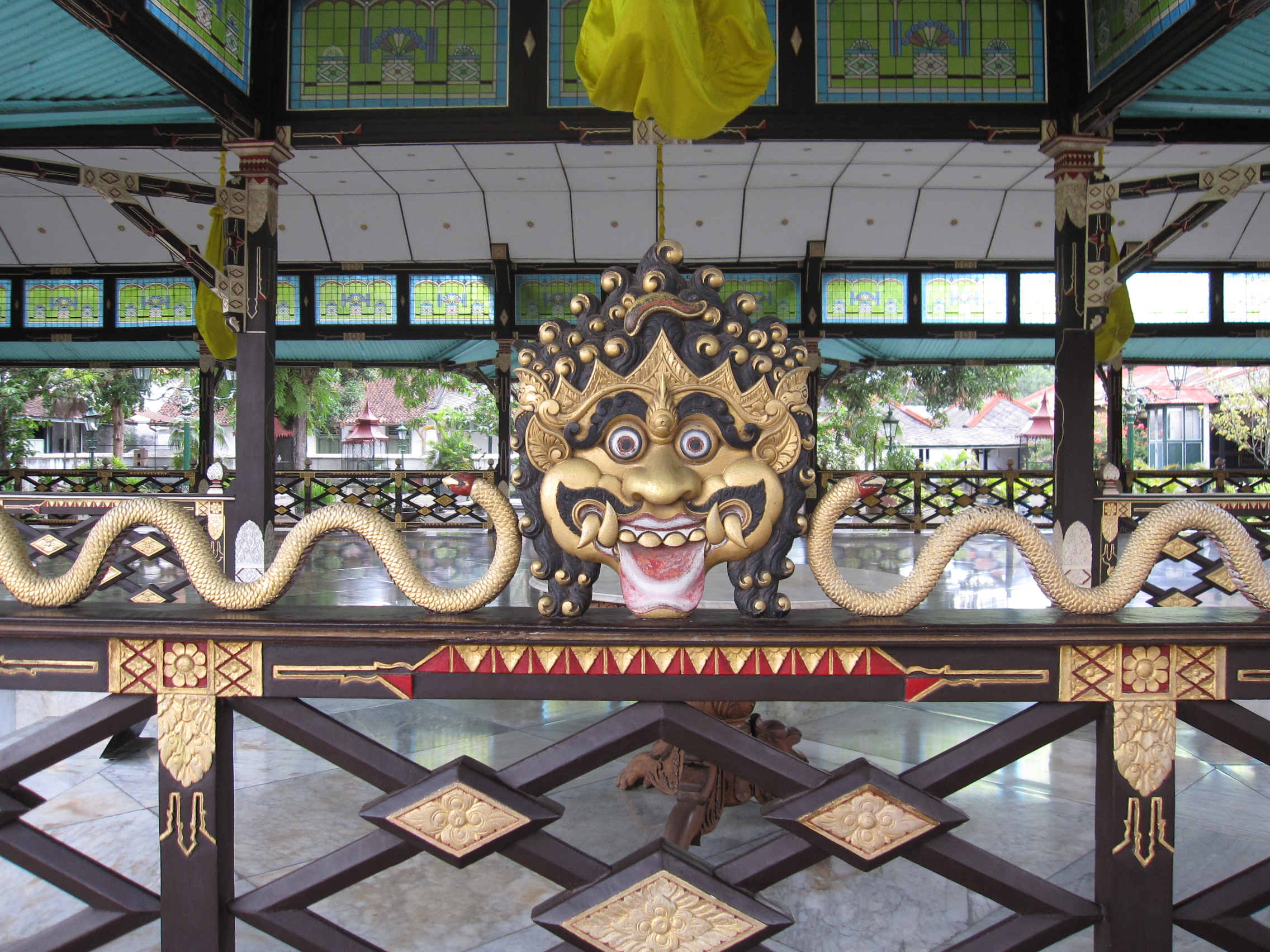 Kraton of Yogyakarta, Indonesia